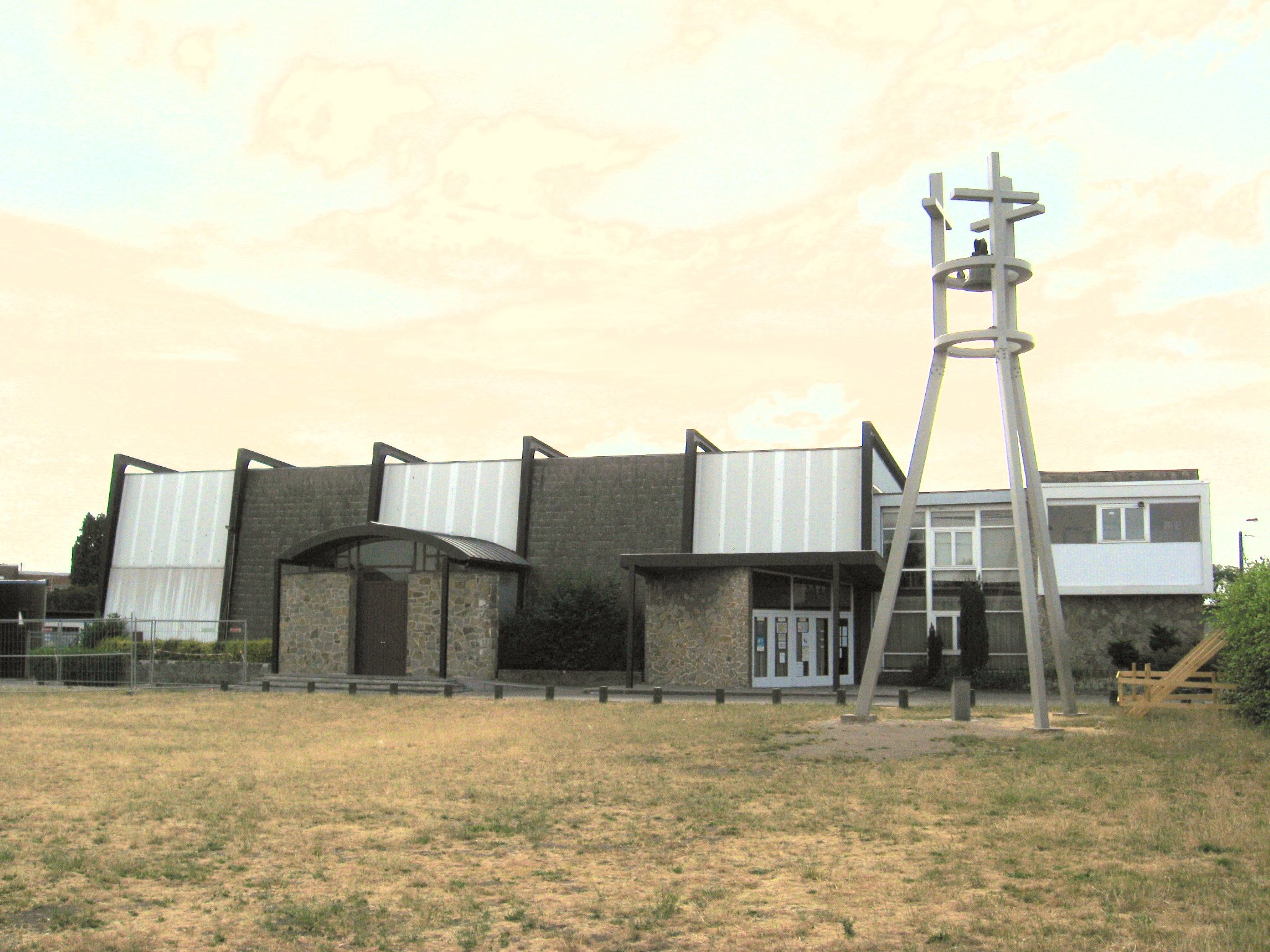 Church of Saint Joseph in Belleflamme, Grivegnée, Liège, Liège, Belgium